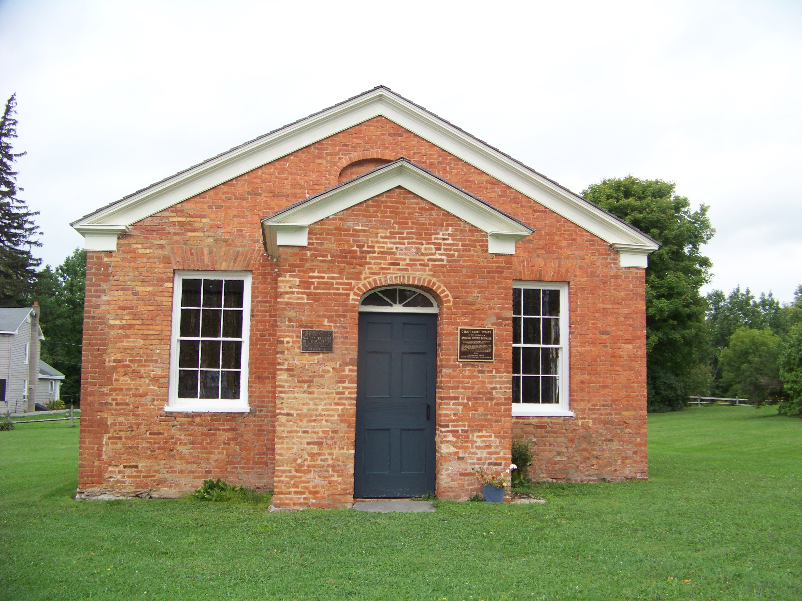 Peter boro Land Office, part of the Gerrit Smith Estate NHL, Peterboro, NY